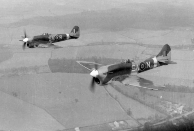 A Hawker Tempest Mk.V (JN766 "SA-N", foreground) and a Hawker Typhoon Mk.IB ("SA-R") of No. 486 Squadron RNZAF based at Castle Camps, Cambridgeshire (UK), in flight. The Squadron transitioned from the Typhoon to the Tempest between January and April 1944.